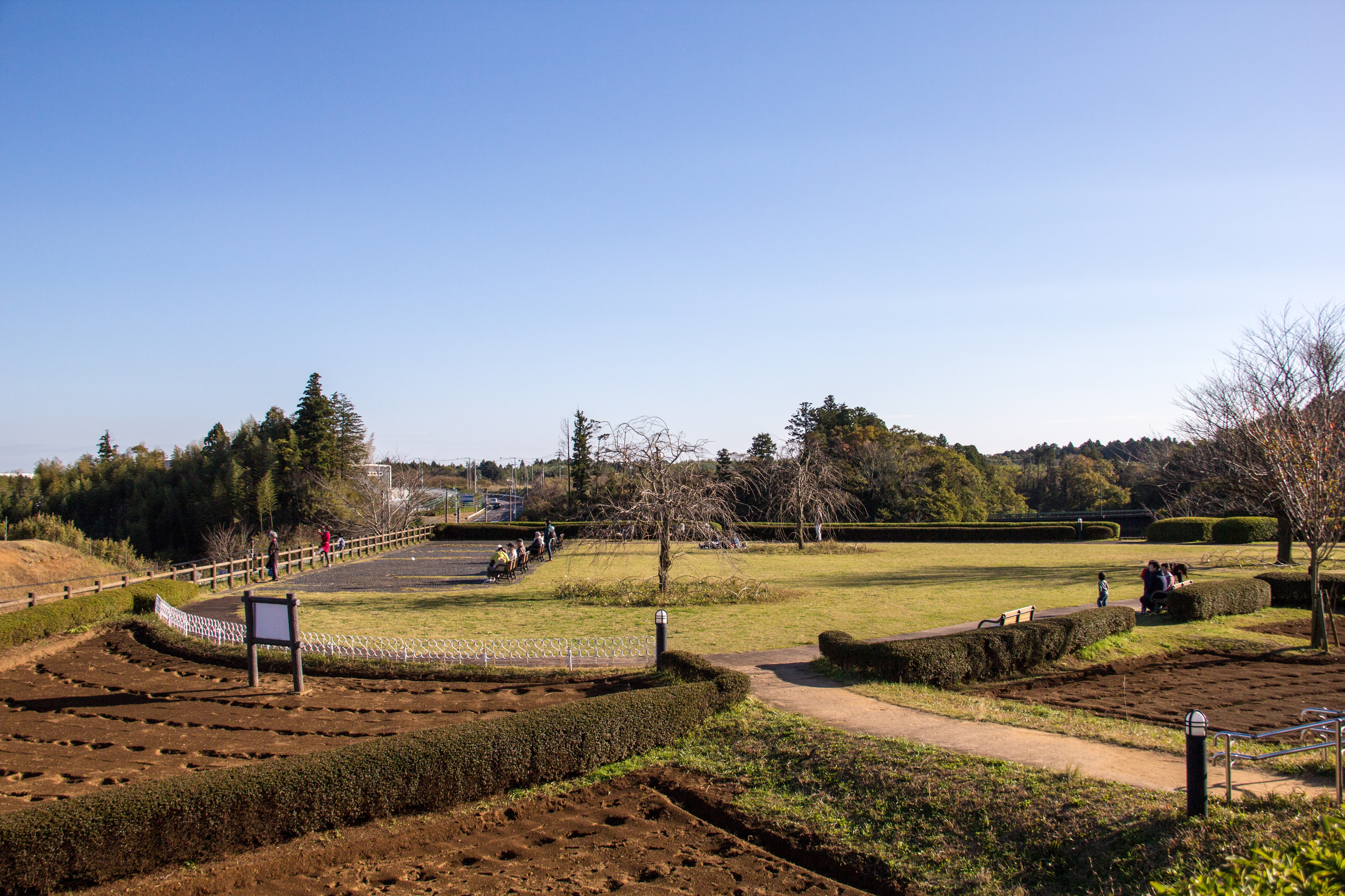 Sanrizuka Sakura no oka in Narita City, Chiba Prefecture, Japan